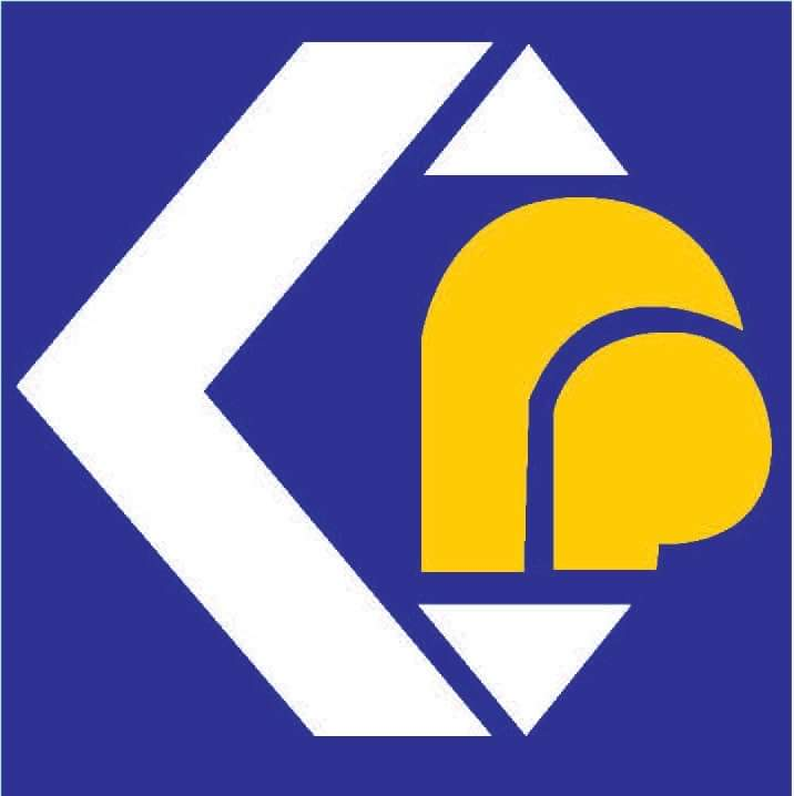 Logo of Ministry of Domestic Trade and Consumer Affairs (Malaysia)